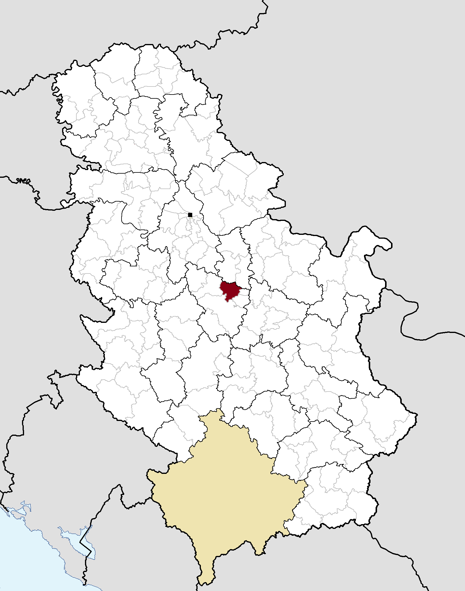 Municipal location in Serbia